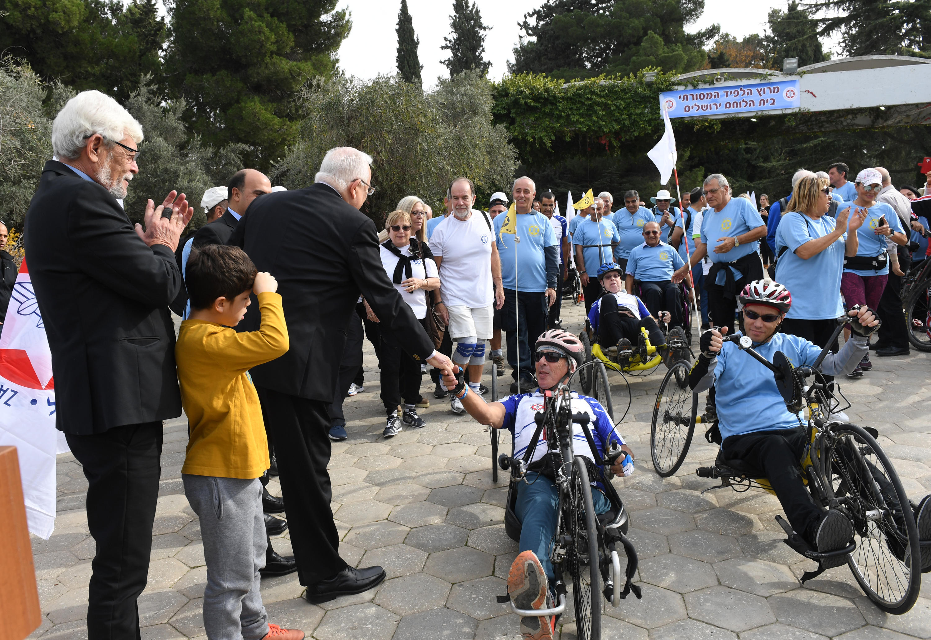 The President of Israel, Reuven Rivlin, launches the traditional torch relay of the IDF disabled veterans organization from Beit HaNassi. Wednesday, December 20, 2017. Photo credit: Haim Zach GPO.